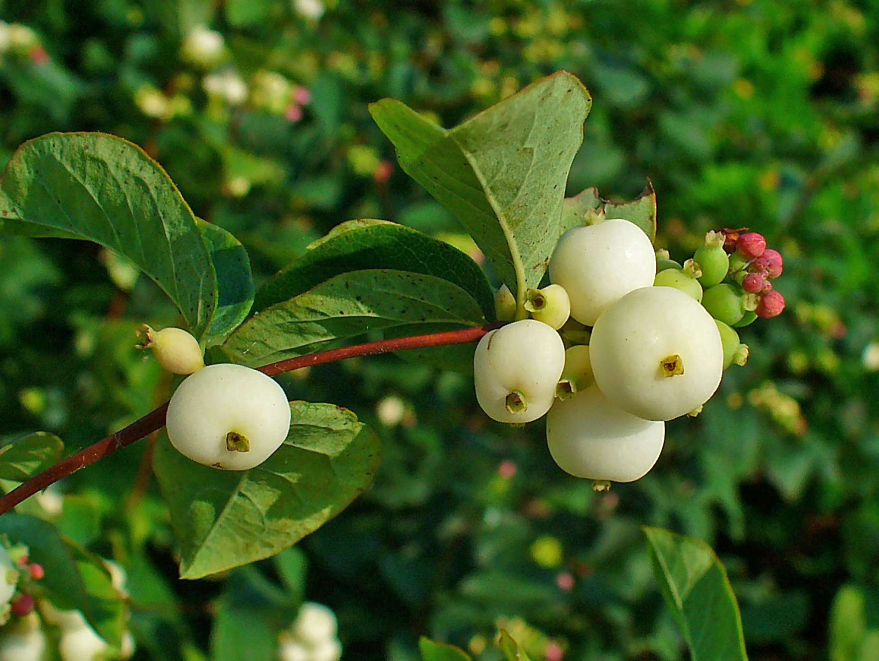 Symphoricarpos albus, Caprifoliaceae, Common Snowberry, fruits.